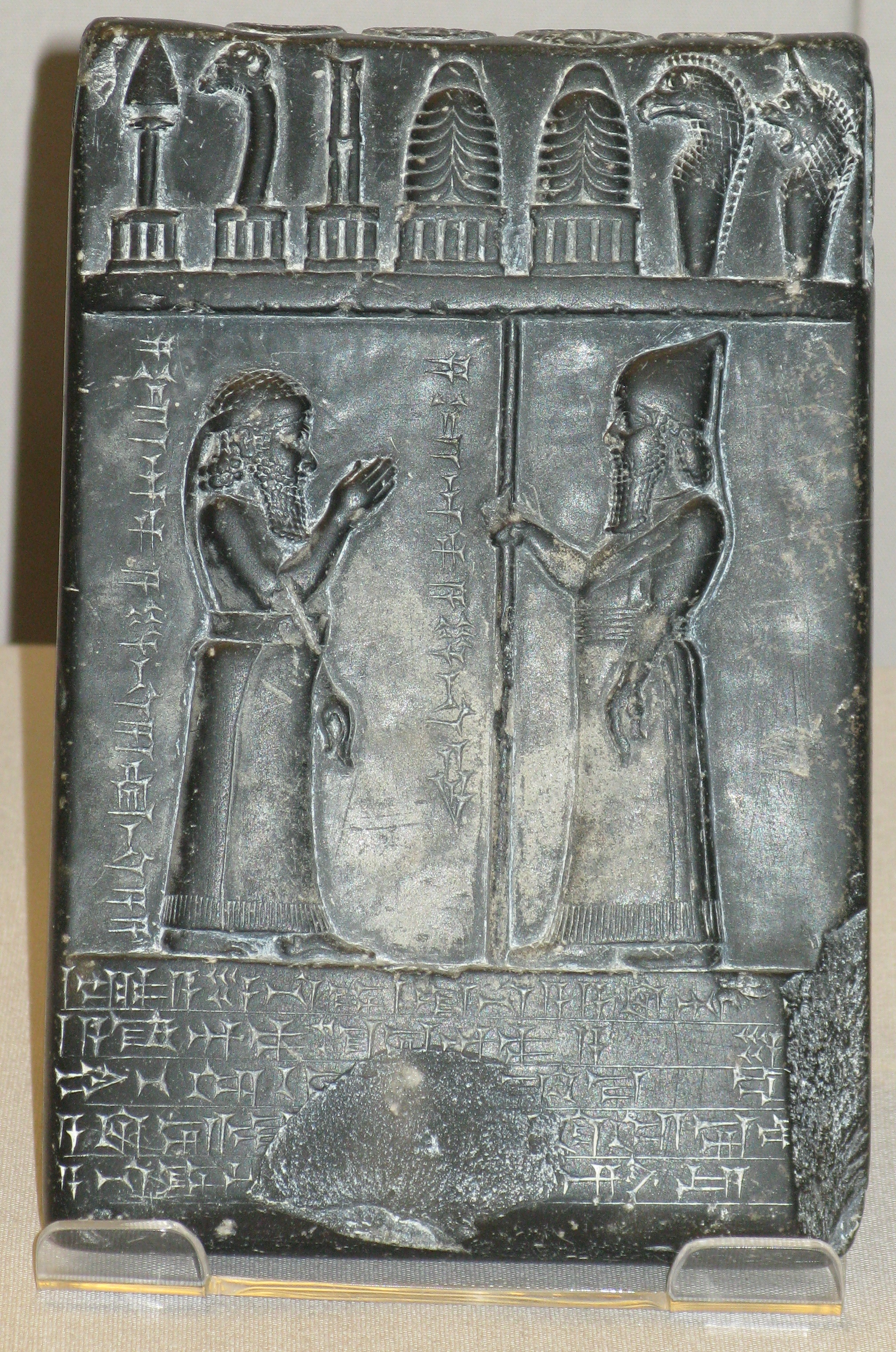 A tablet showing Nabu-apla-iddina (right) confirming a grant of land to a high official of the same name.